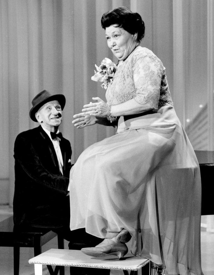 Photo of Jimmy Durante performing with Mrs. Miller, whose unique song styling made her a celebrity briefly in the mid 1960s. The photo is from the television program The Hollywood Palace.